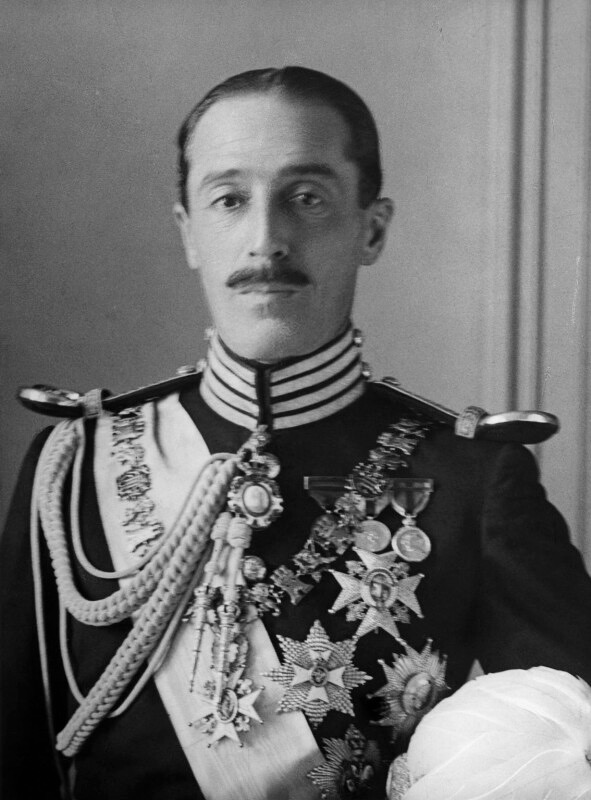 Depicted person: Jacobo Fitz-James Stuart, 17th Duke of Alba – Spanish noble